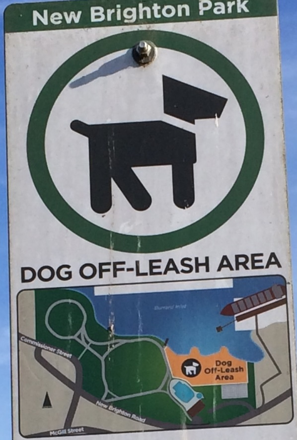 New Brighton Park Dog Off-Leash Area